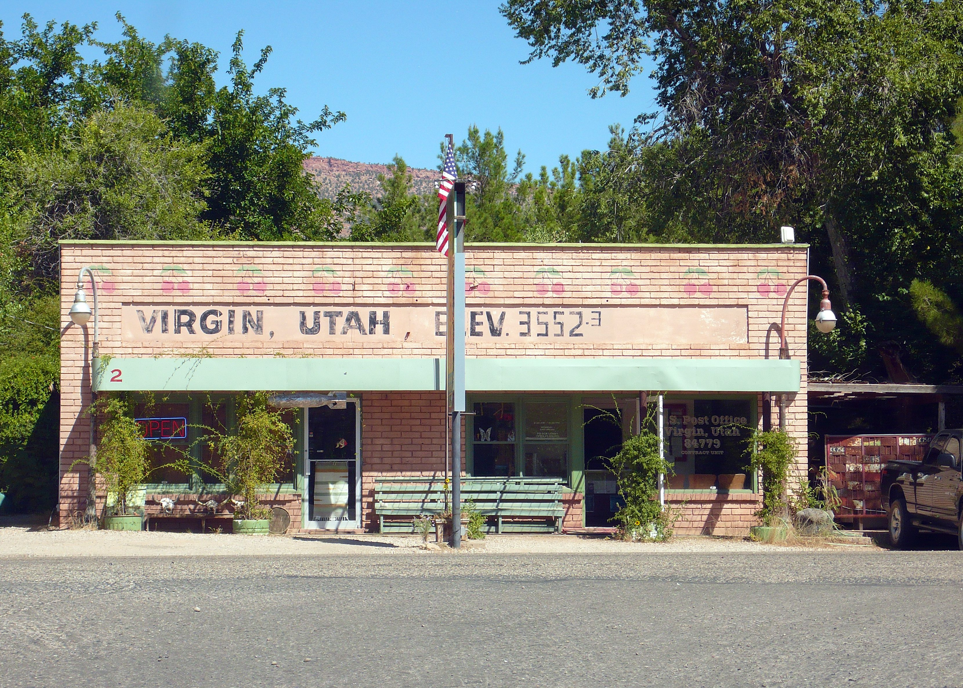 Post Office and Book Shop in Virgin, Utah